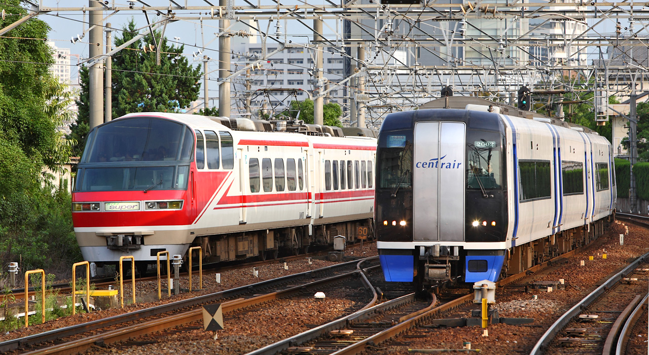 Meitetsu 1000 series (Left) & 2000 series (Right) EMU at Jingū-mae Station.)